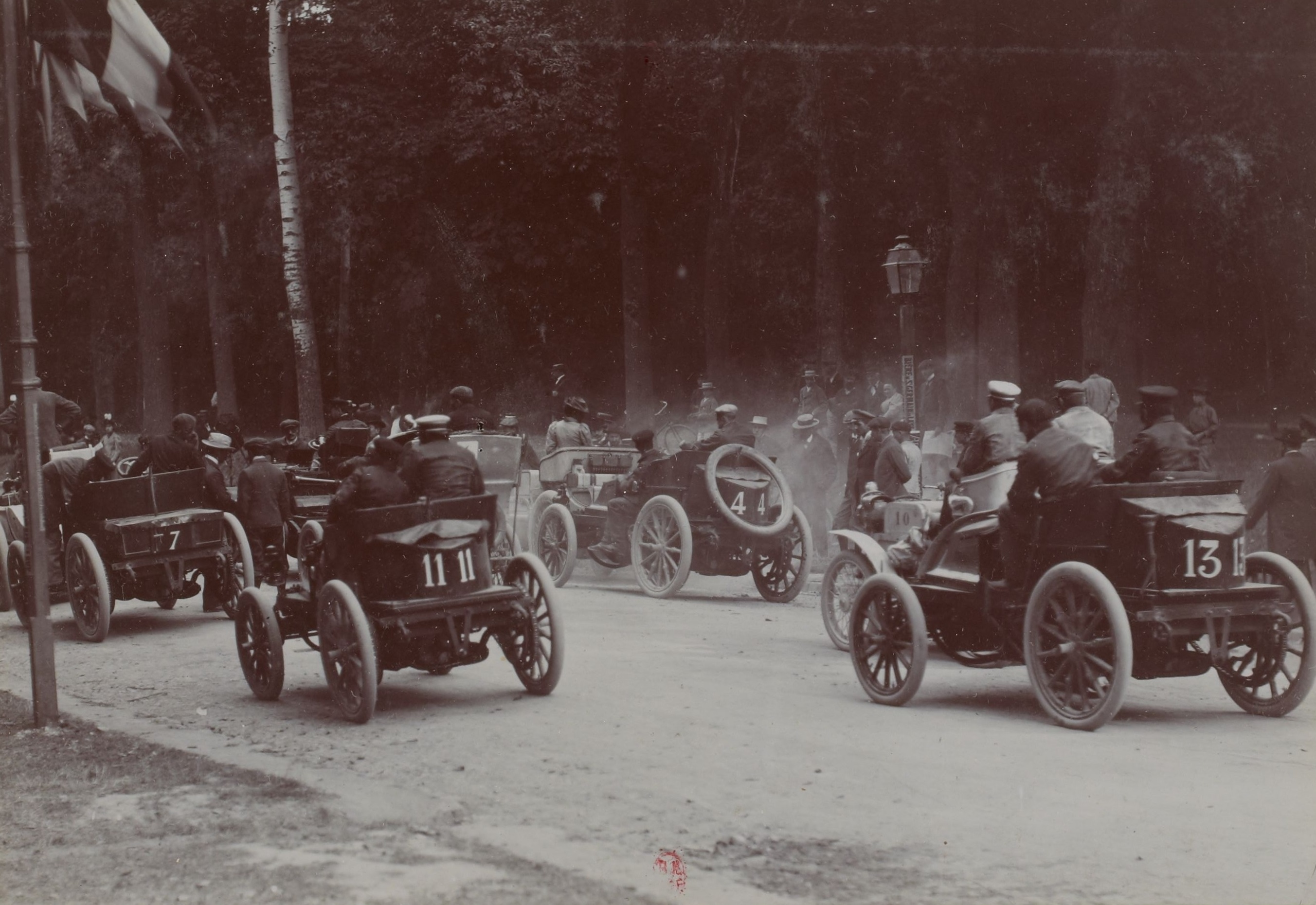 [Collection Jules Beau. Photographie sportive] : T. 10. Année 1899 / Jules Beau : F. 20v. Course Paris - Ostende, 1er septembre 1899: départ (de dos) de Paris-Ostende, le 1er septembre 1899 (numéro 7 Levegh (Alfred Velghe) le futur vainqueur, numéro 4 Fernand Charron).